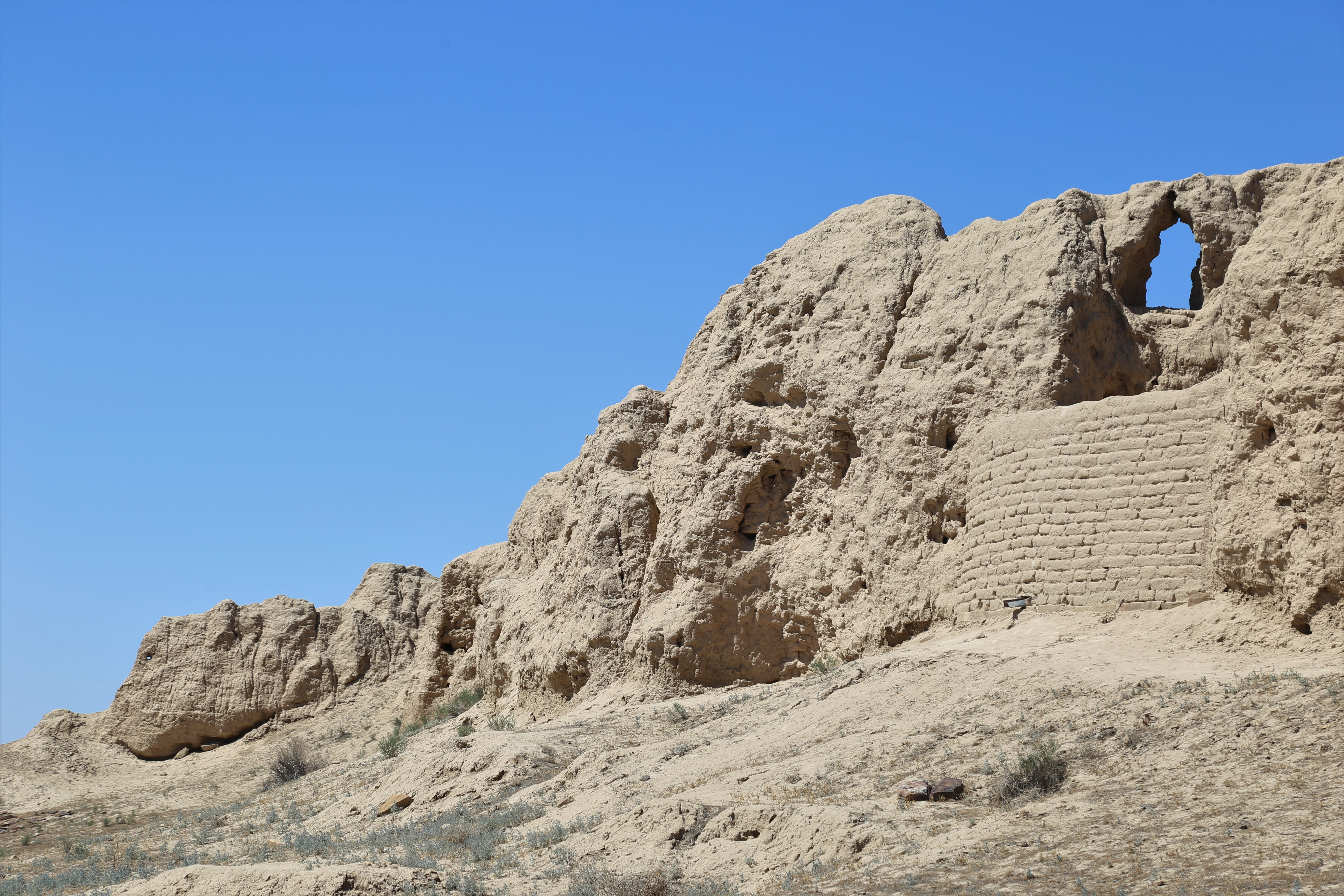 Sauran